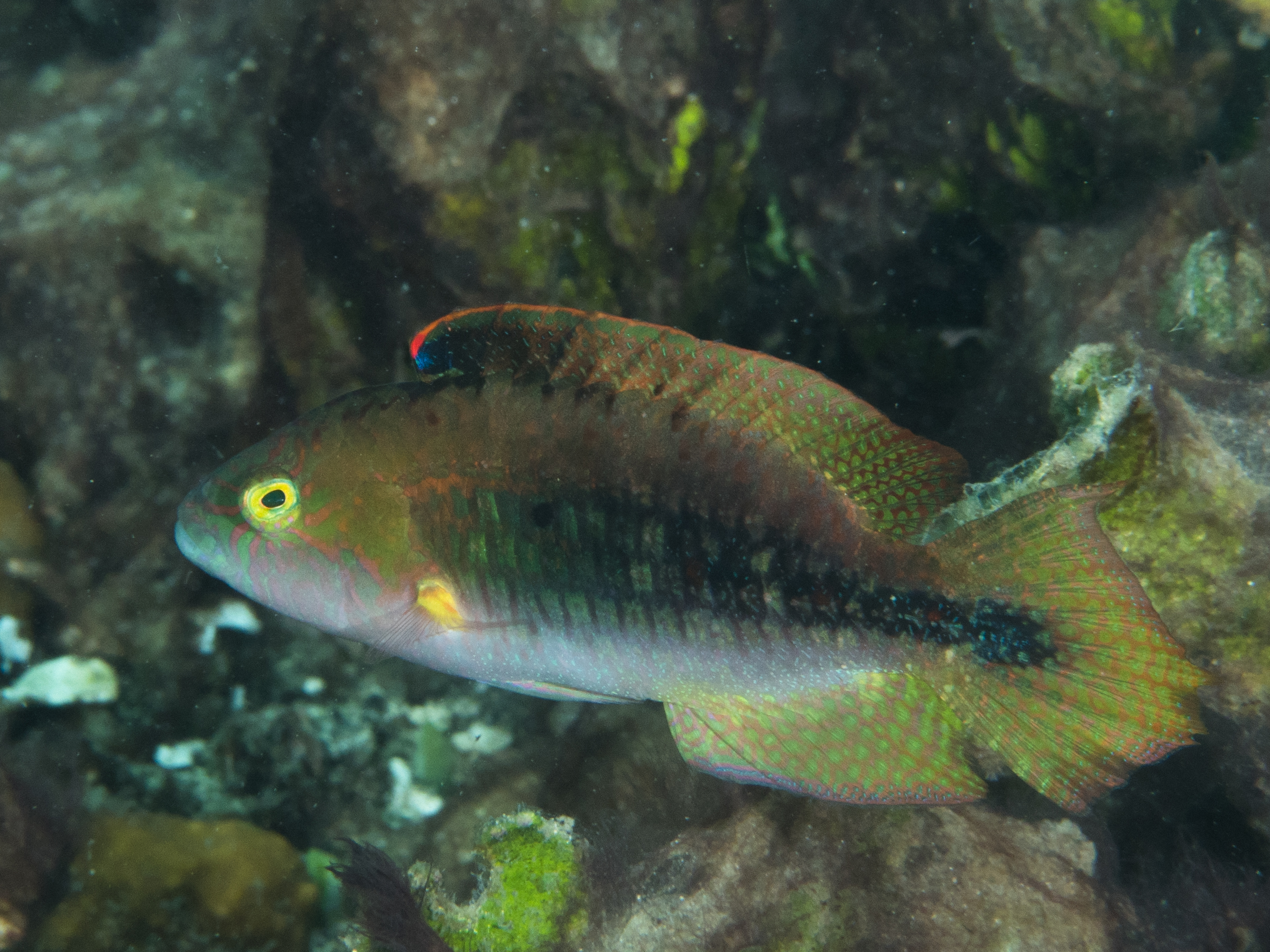 Lembeh, Indonesia - Two-spot wrasse (Oxycheilinus bimaculatus)